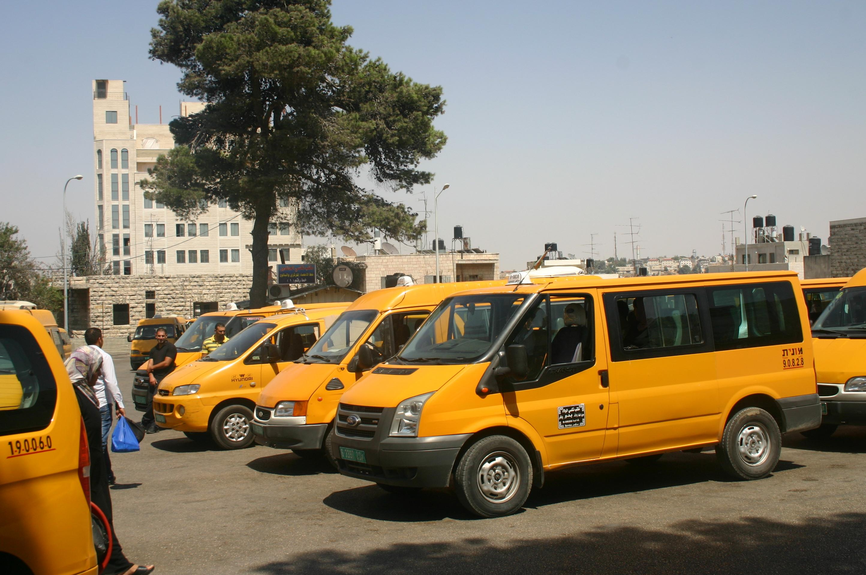 Palestinian service taxis in Ramallah